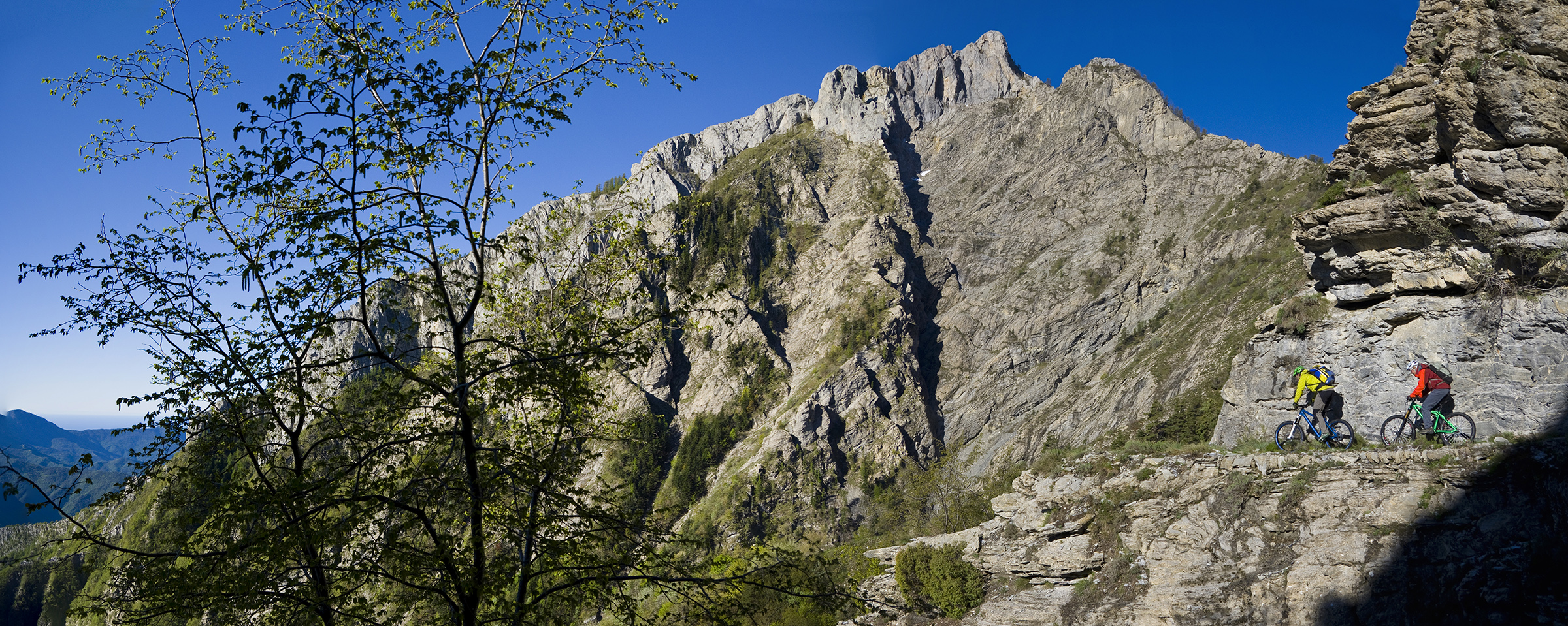 Ligurian Alps, 1971m